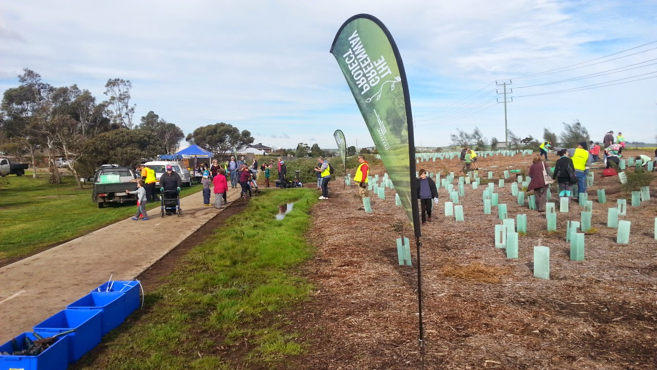 Community planting day on the Ted Wilson trail at Haines reserve, Geelong, Victoria Australia. Event was held in July 2014.